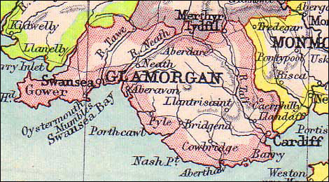 Hand drawn Victorian map of the historic county of Glamorgan